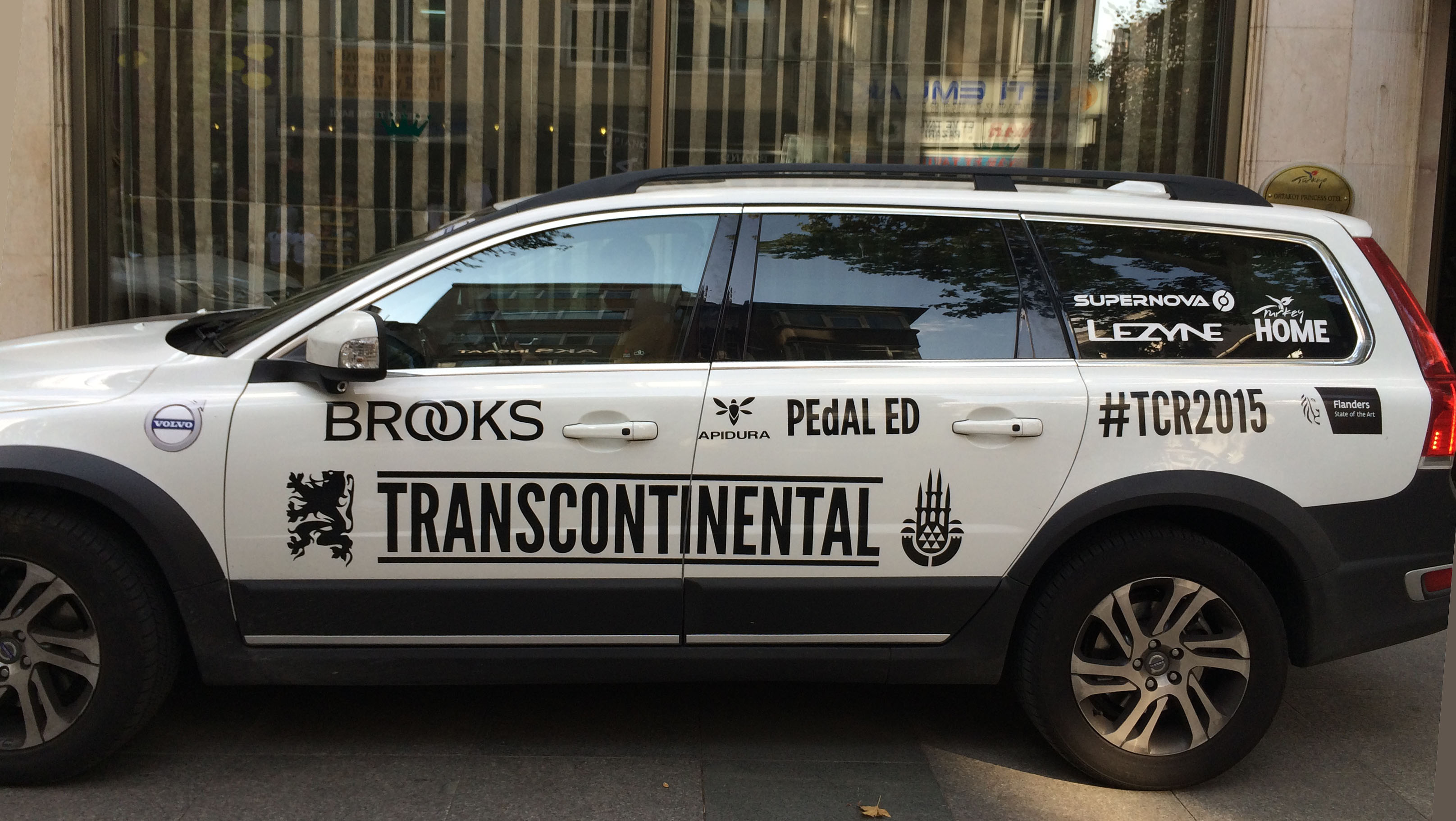 Volvo race vehicle for the 2015 Transcontinental Race outside the hotel of the finish party in Istanbul, Turkey